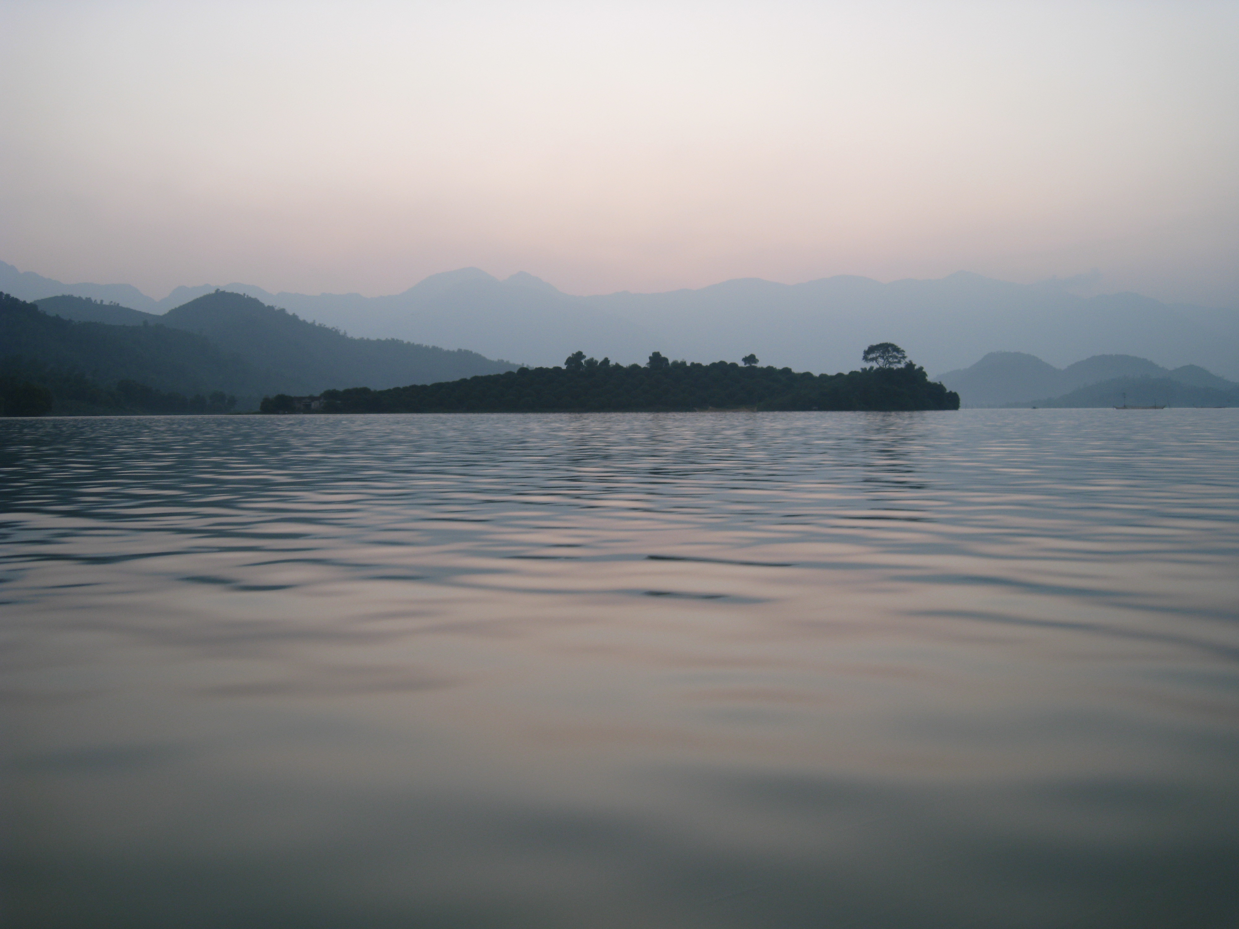 Núi Cốc (Mount Cốc) Lake.